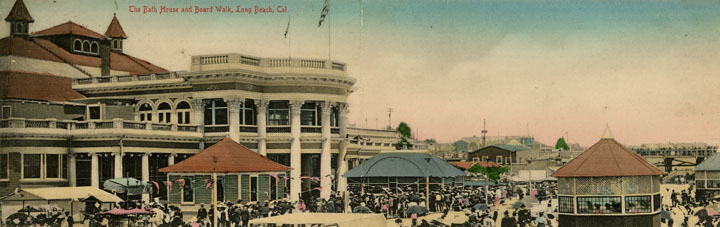 Sketch of Long Beach, 1907.